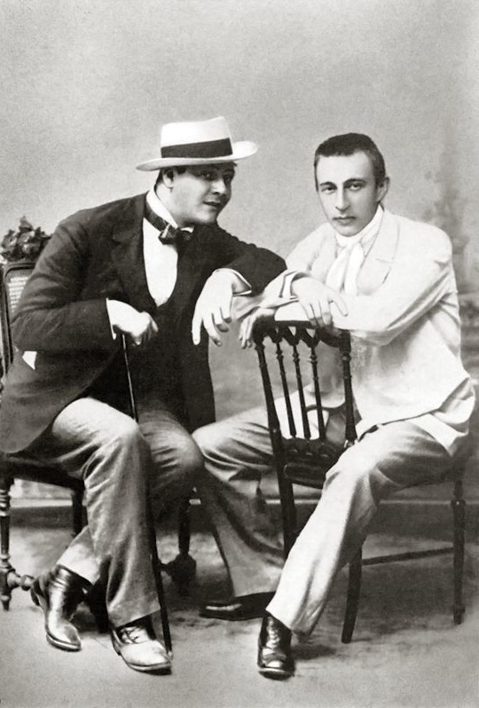 Feodor Chaliapin (left) and Sergei Rachmaninoff, c. 1890